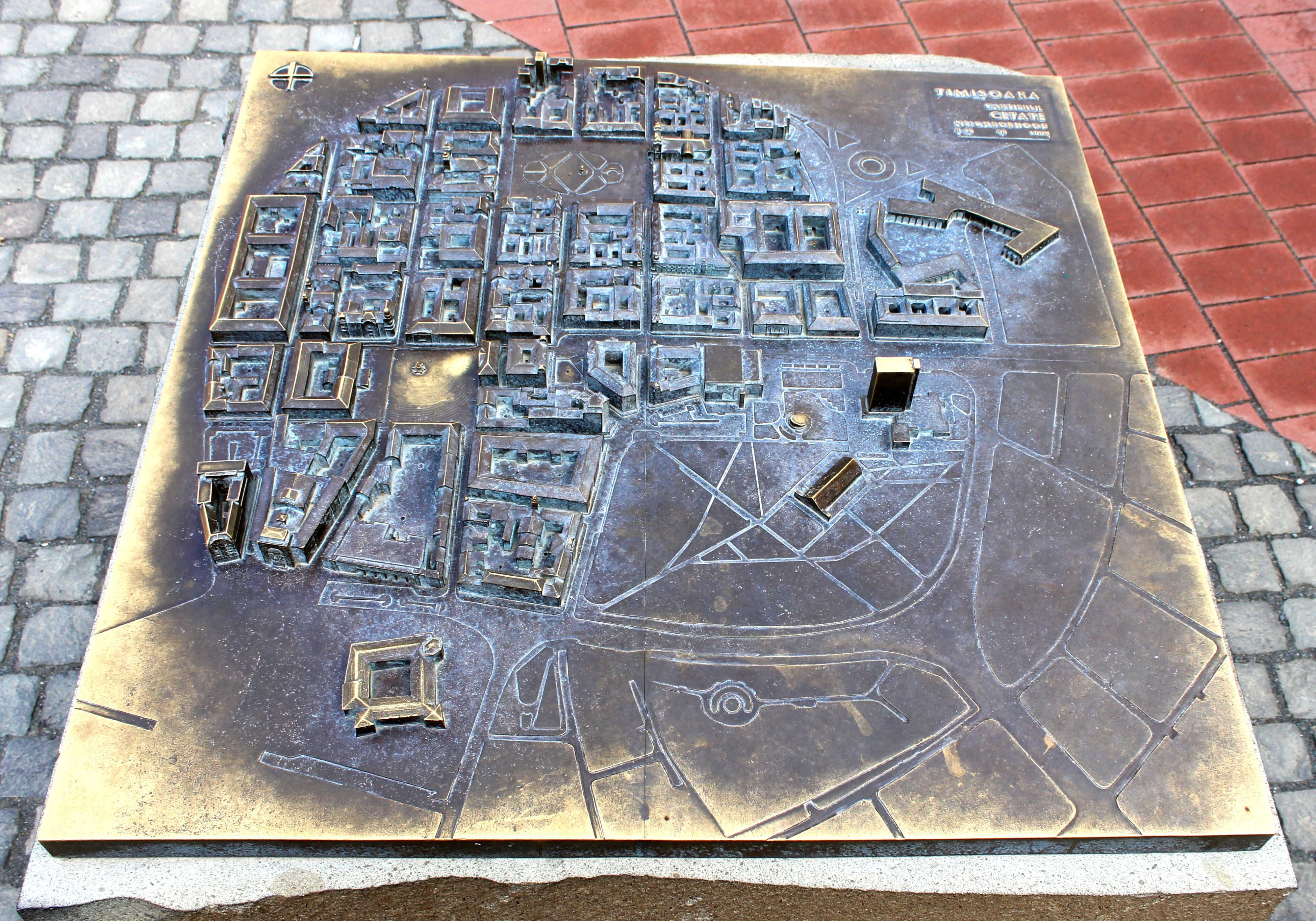 Mock-up of the intra muros area in the Libertății Square, Timișoara, Romania.